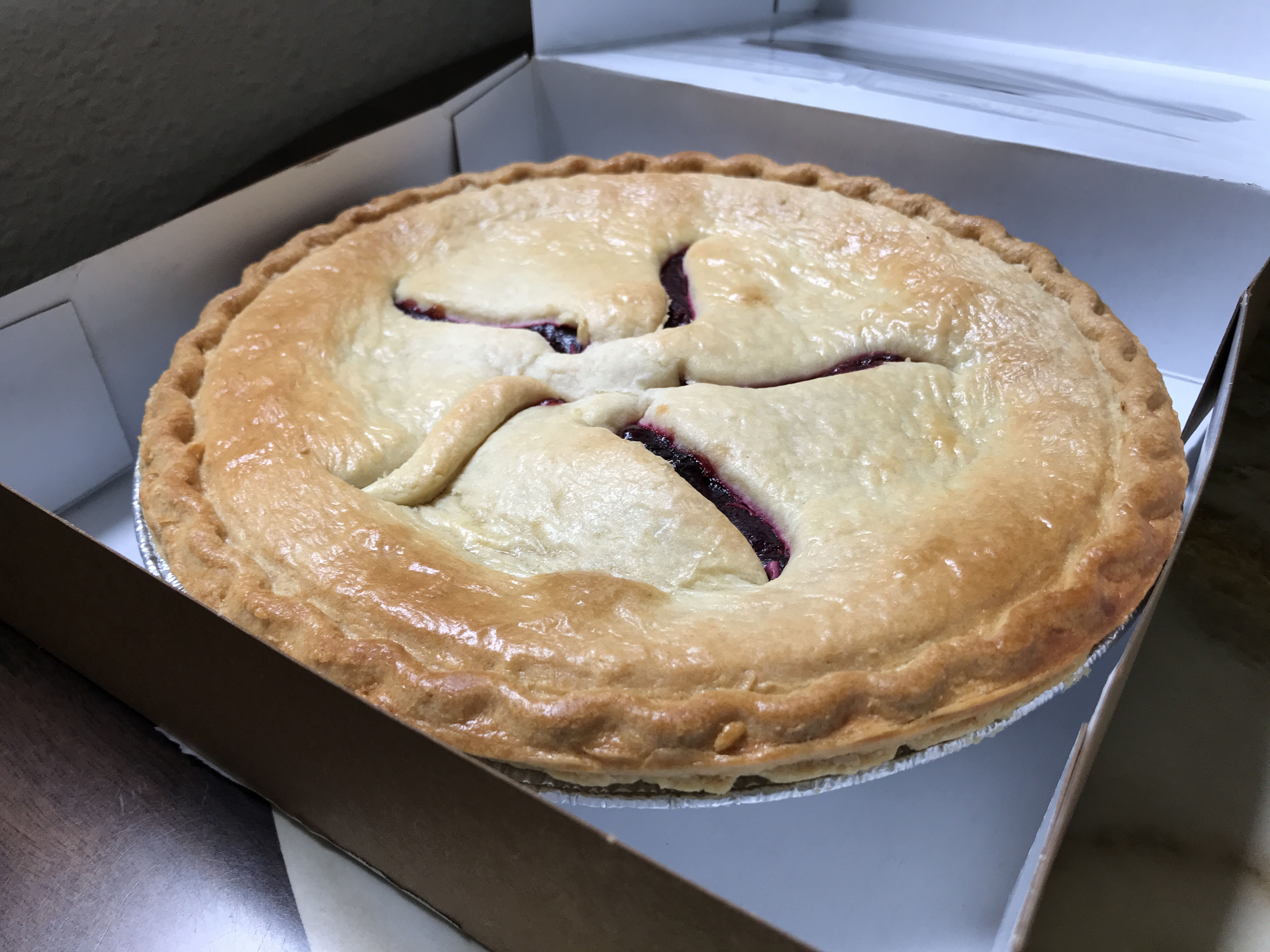 Blackberry pie